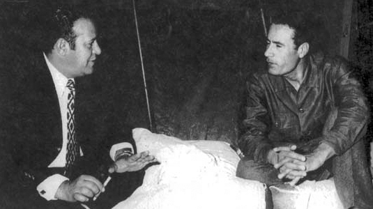 North Yemeni prime minister Muhsin al-Aini (Mohsen el-Ainy) and Libyan revolution leader Muammar al-Gaddafi 1972 in Tripolis (obviously negotiating about peace with South Yemen)